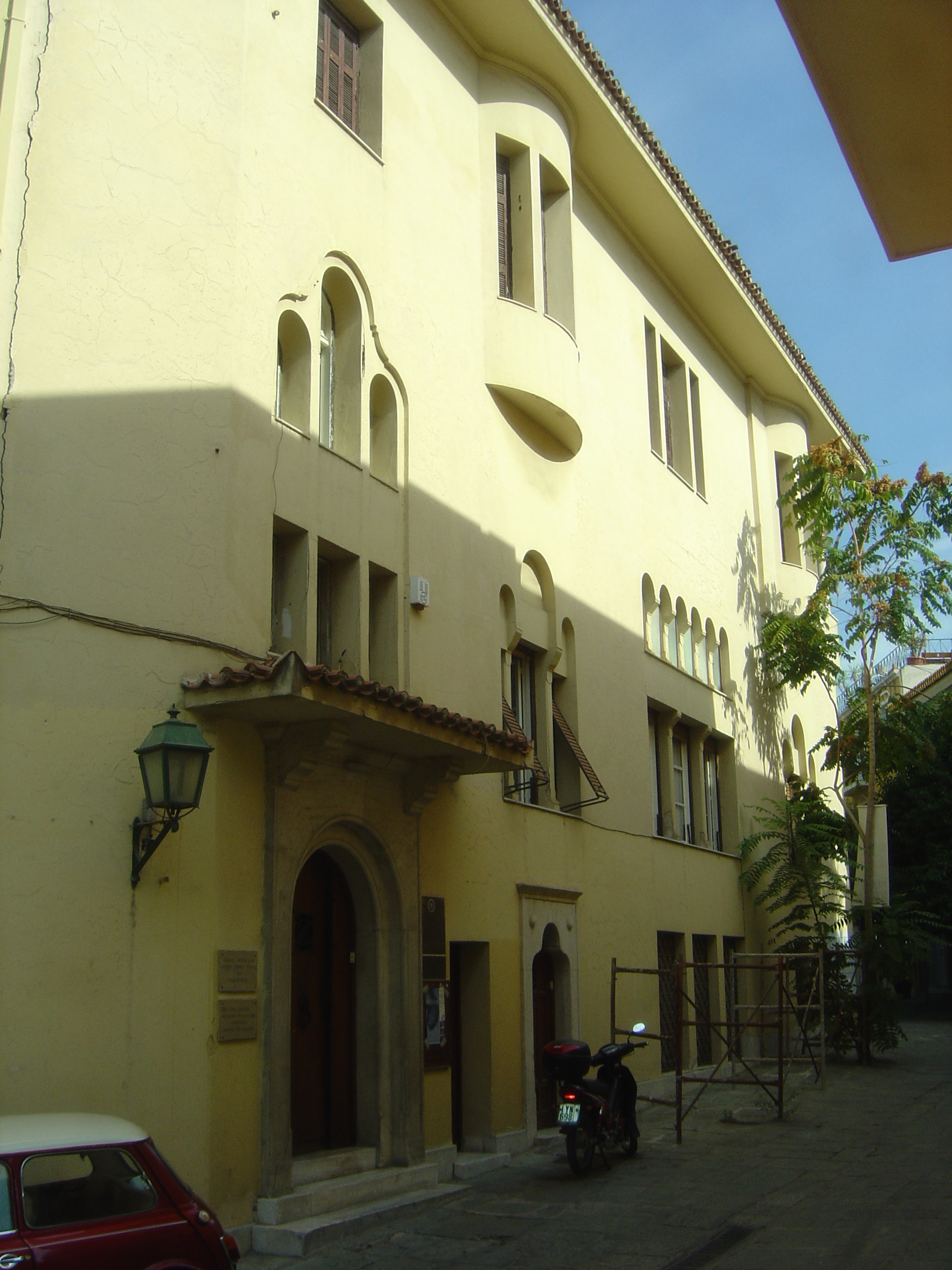 Hatzimichali house in Plaka, Athens